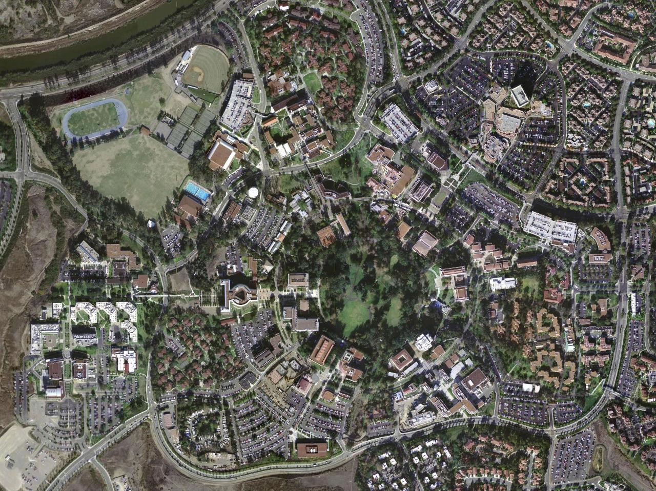 University of California and surroundings from a USGS satellite, March 29, 2004.